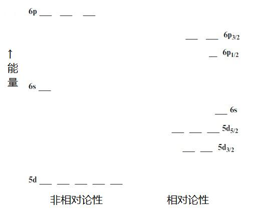 Data from Ishikawa, edited by Maria Barysz, Yasuyuki (2010) Relativistic methods for chemists, Dordrecht: Springer ISBN: 9781402099748.